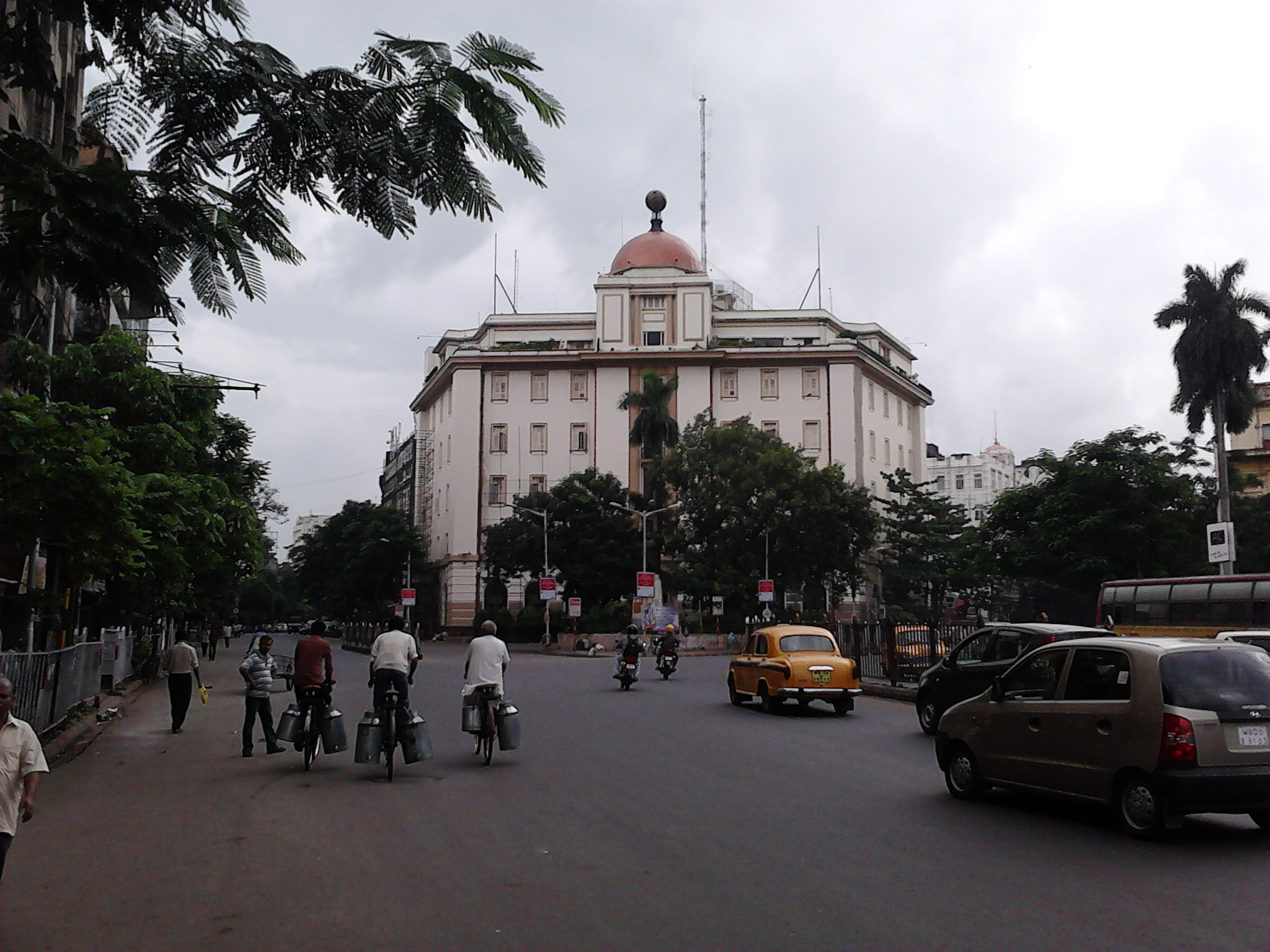 The Victoria House is headquarters of the Calcutta Electric Supply Corporation or CESC that supplies electricity to area under the Kolkata municipal corporation in the city of Kolkata, India, mainly but also few areas of Howrah, Hooghly, 24 Parganas (North) and 24 Parganas (South) districts of West Bengal, India.